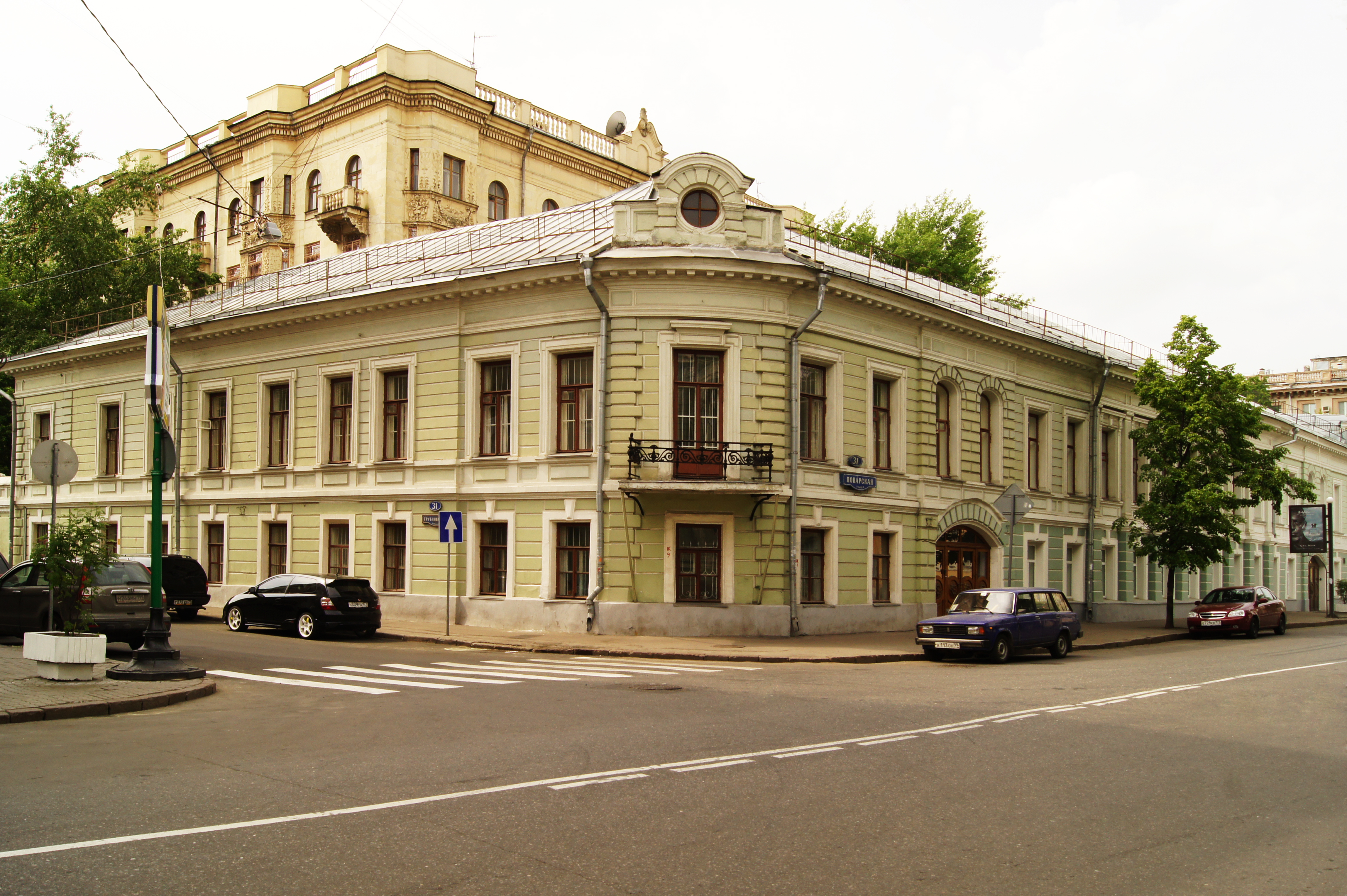 Povarskaya Street - Trubnikovsky Lane 31-31